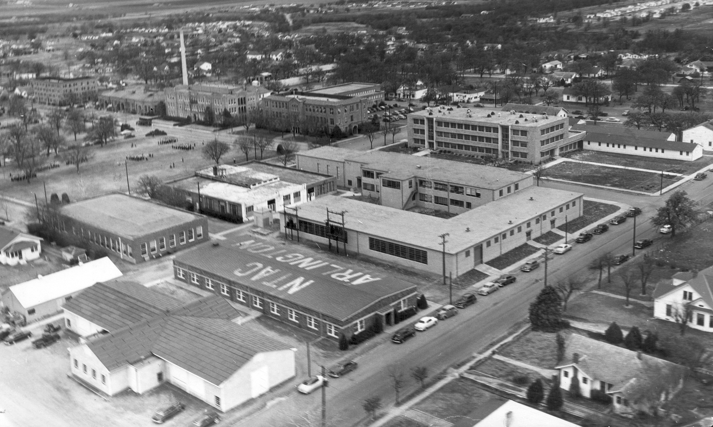 Aerial of Arlington State College campus. The street near the bottom of the photograph is Cooper Street.